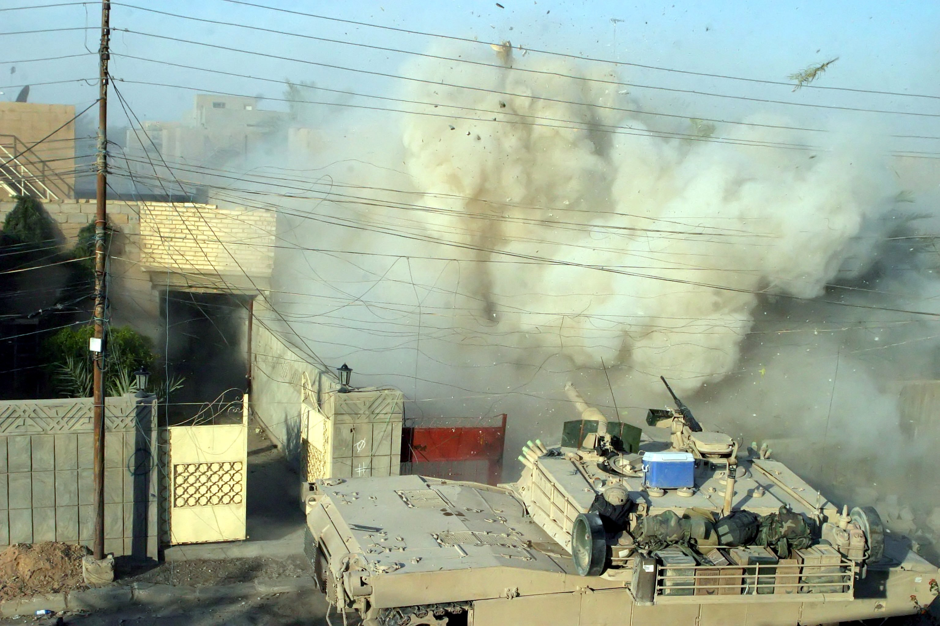 A US Marine Corps (USMC) Marine M1A1 Abrams Main Battle Tank (MBT), 2nd Tank Battalion (BN), fires its main gun into a building to provide suppressive counter fire against terrorists who fired on other USMC Marines during a fire fight in Fallujah, Al Anbar Province, Iraq. These Marines are participating in Operation AL FAJR, which is an offensive operation conducted against Iraqi terrorist forces as part of a Security and Stabilization Operation (SASO) carried out during Operation IRAQI FREEDOM. (Released to Public)